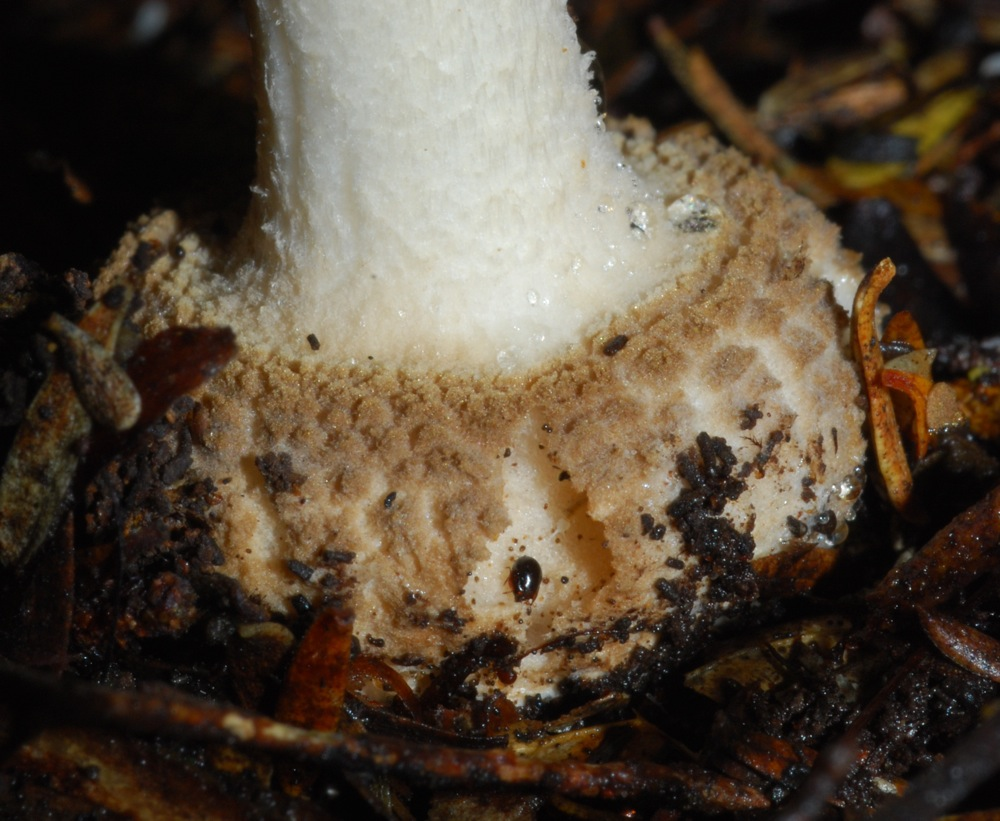 Amanita australis G. Stev. Location: Auckland, New Zealand Observation Notes: Found under Leptospermum scoparium in native New Zealand bush, mainly in autumn and the beginning of winter, very distinguishable conical warts usually grouped near the centre of the pileus! For more information about this, see the observation page at Mushroom Observer.